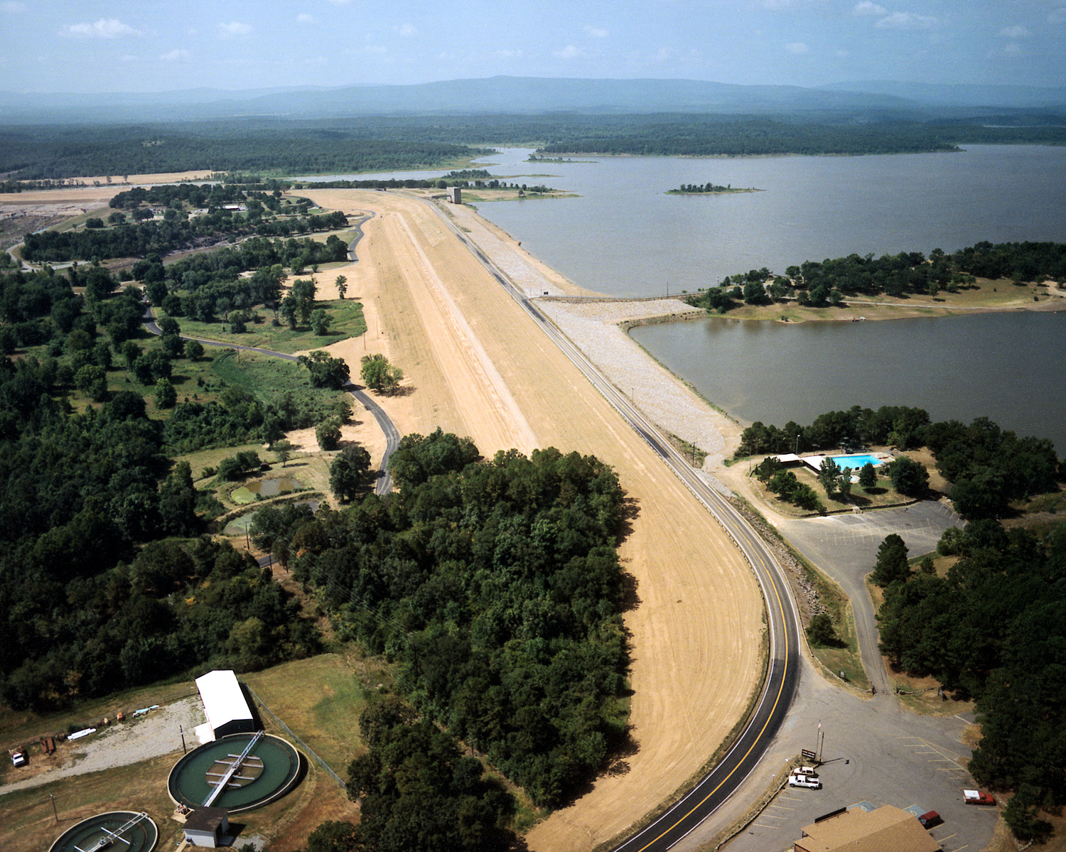 Aerial view of Wister Lake and Dam on the Poteau River and the Fourche Maline creek in Le Flore County, Oklahoma, USA. The dam was constructed in 1949 by the U.S. Army Corps of Engineers for flood control and water supply. Wister Lake State Park is at the bottom of the picture and on the small peninsula behind the dam. The highway of U.S. Route 270 crosses the dam. View is to the south-southwest. Coordinates: 34°56′36.36″N 94°42′59.8″W / 34.9434333°N 94.716611°W